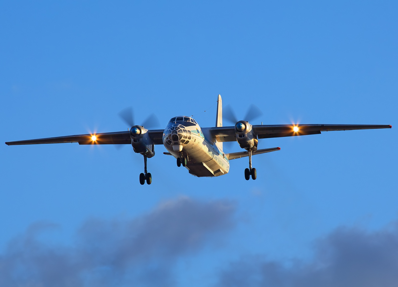 Here comes the sun...